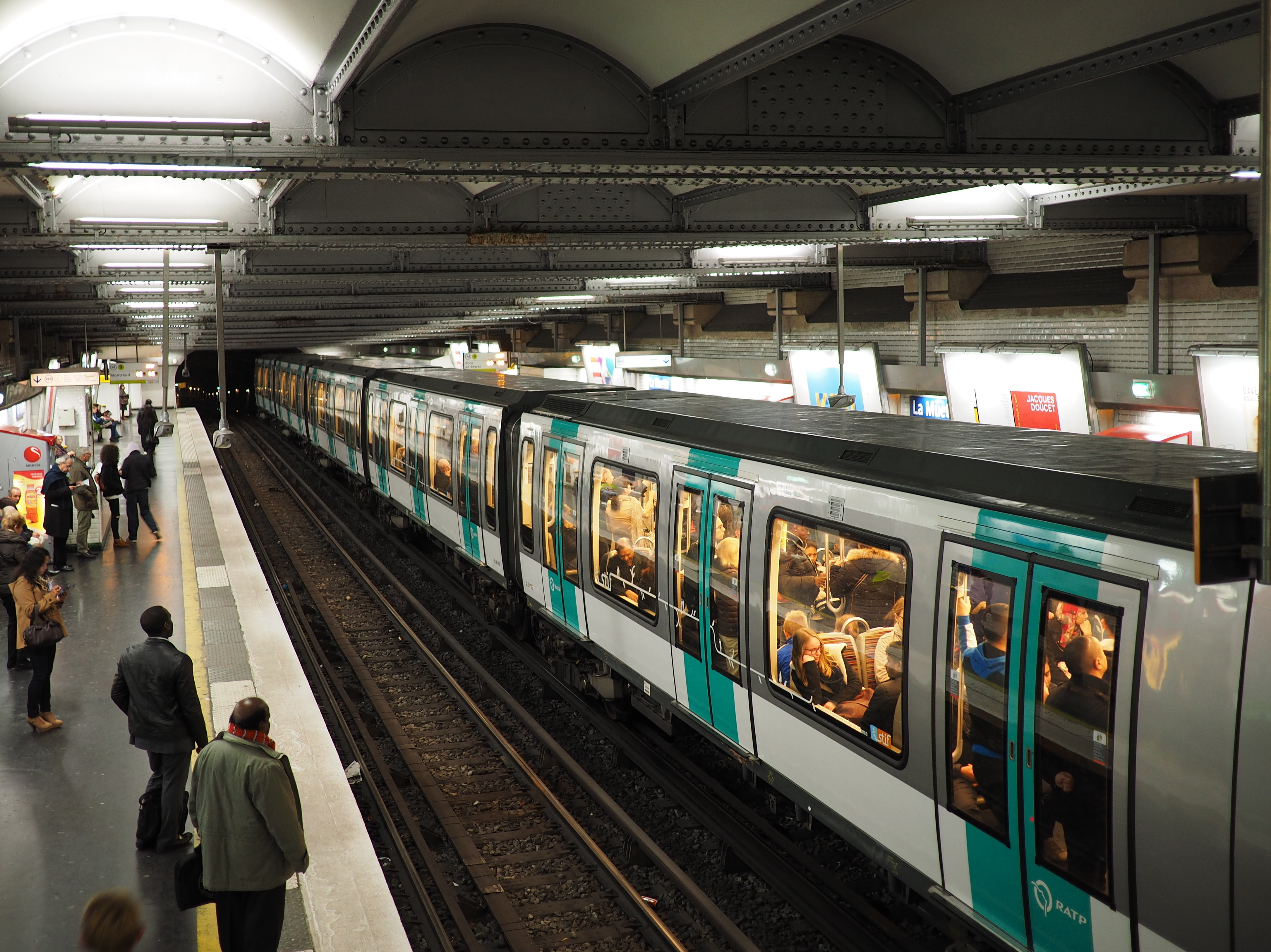 A Train at La Muette metro station